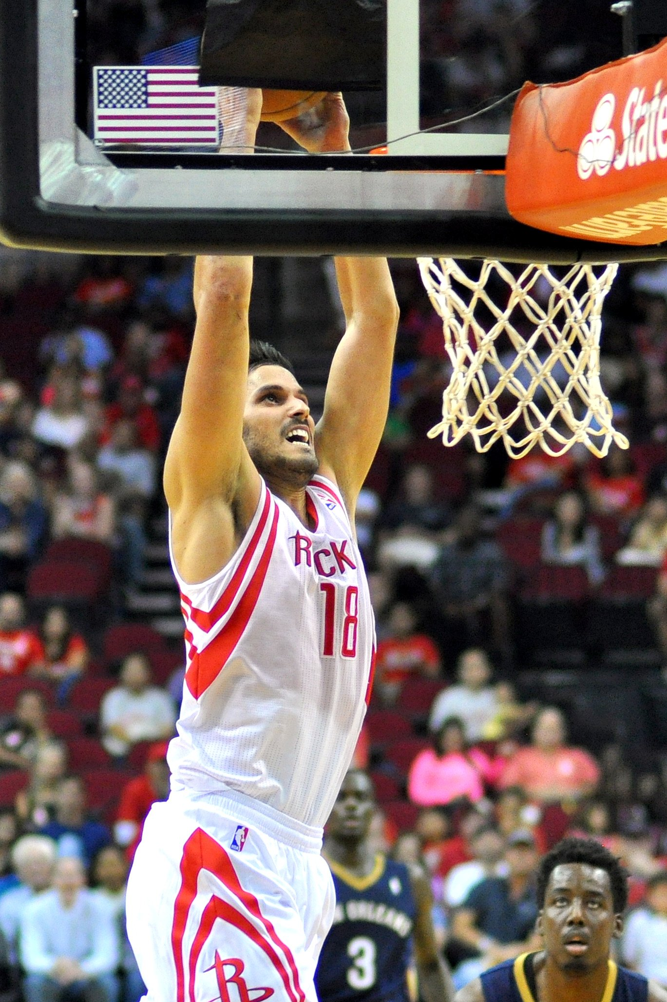 Omri Casspi of the Houston Rockets goes up for a dunk during an NBA preseason basketball game against the New Orleans Pelicans, October 5, 2013, at the Toyota Center in Houston, Texas.